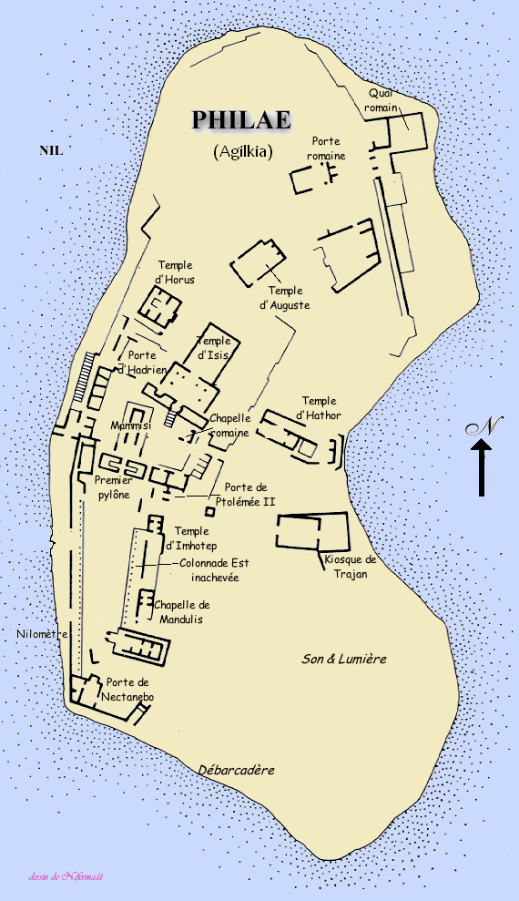 Island of Agilkia. In the 1960s, every building was dismantled, and transported to the nearby island of Agilkia, situated on higher ground some 500 m away.